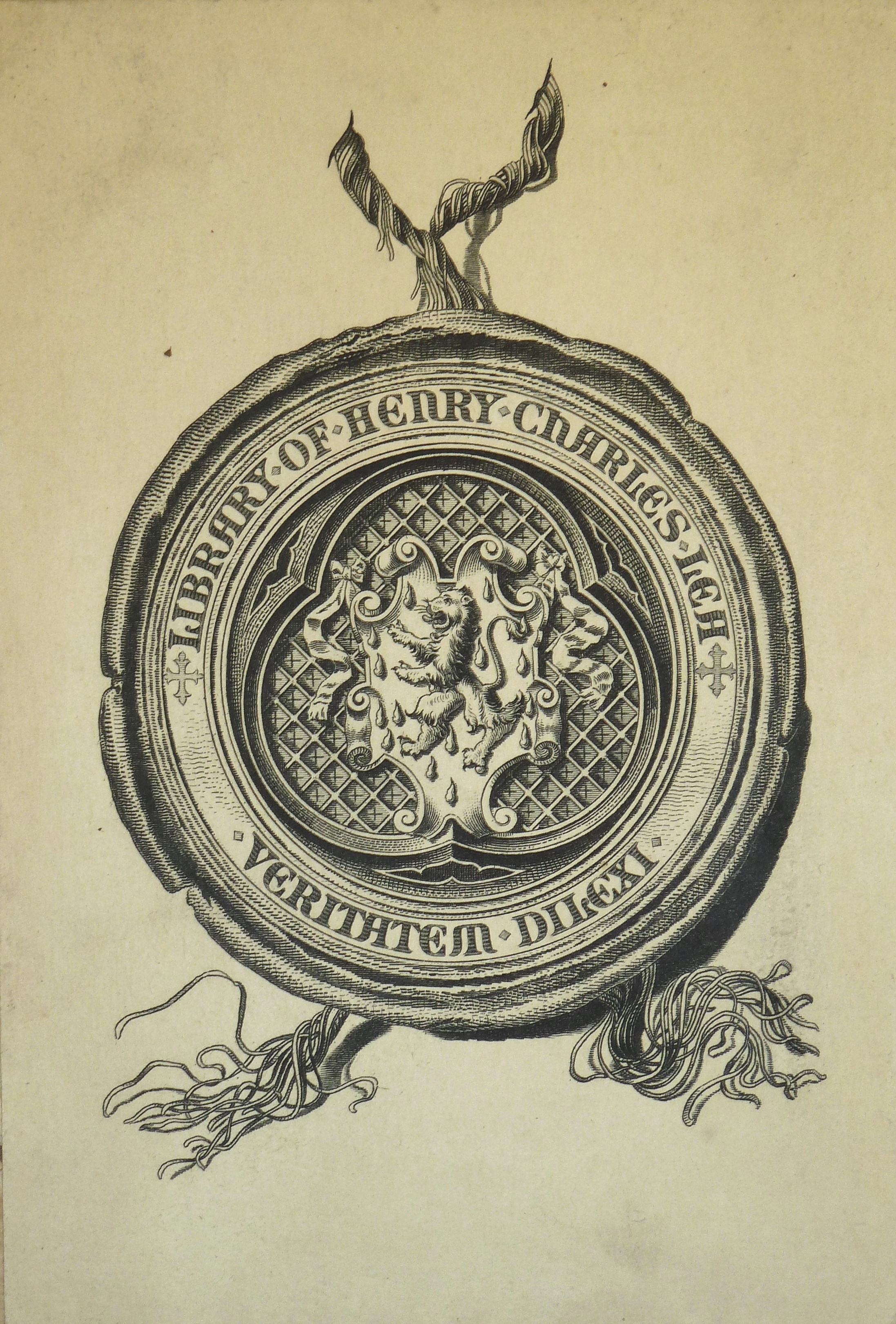 Established heading: [ Lea, Henry Charles